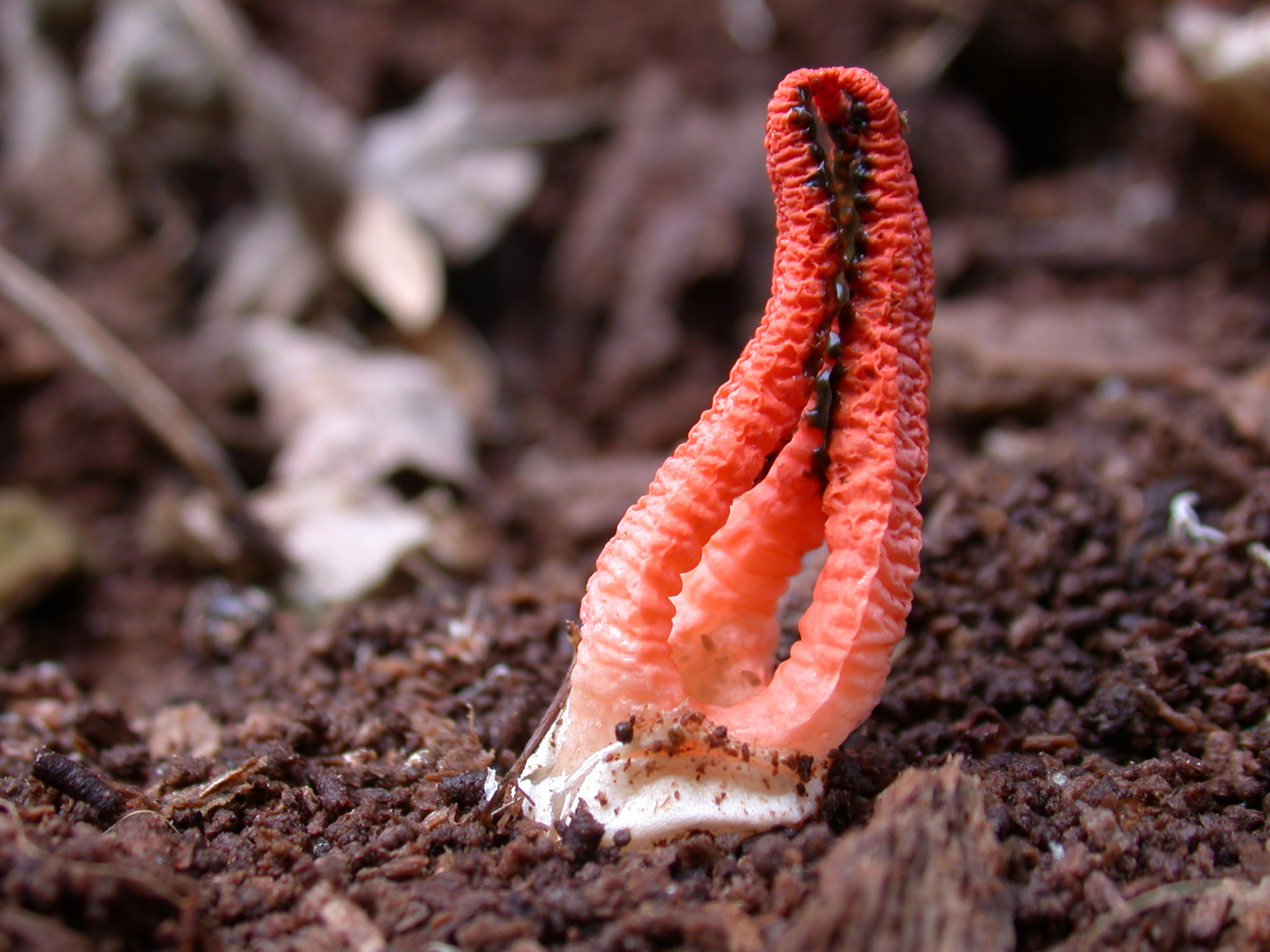 A fruitbody of the fungus Pseudocolus fusiformis (E. Fisch.) Lloyd. Photographed in Jasper County, Missouri, USA. "Notes: Growing in the dirt made from a rotten log."